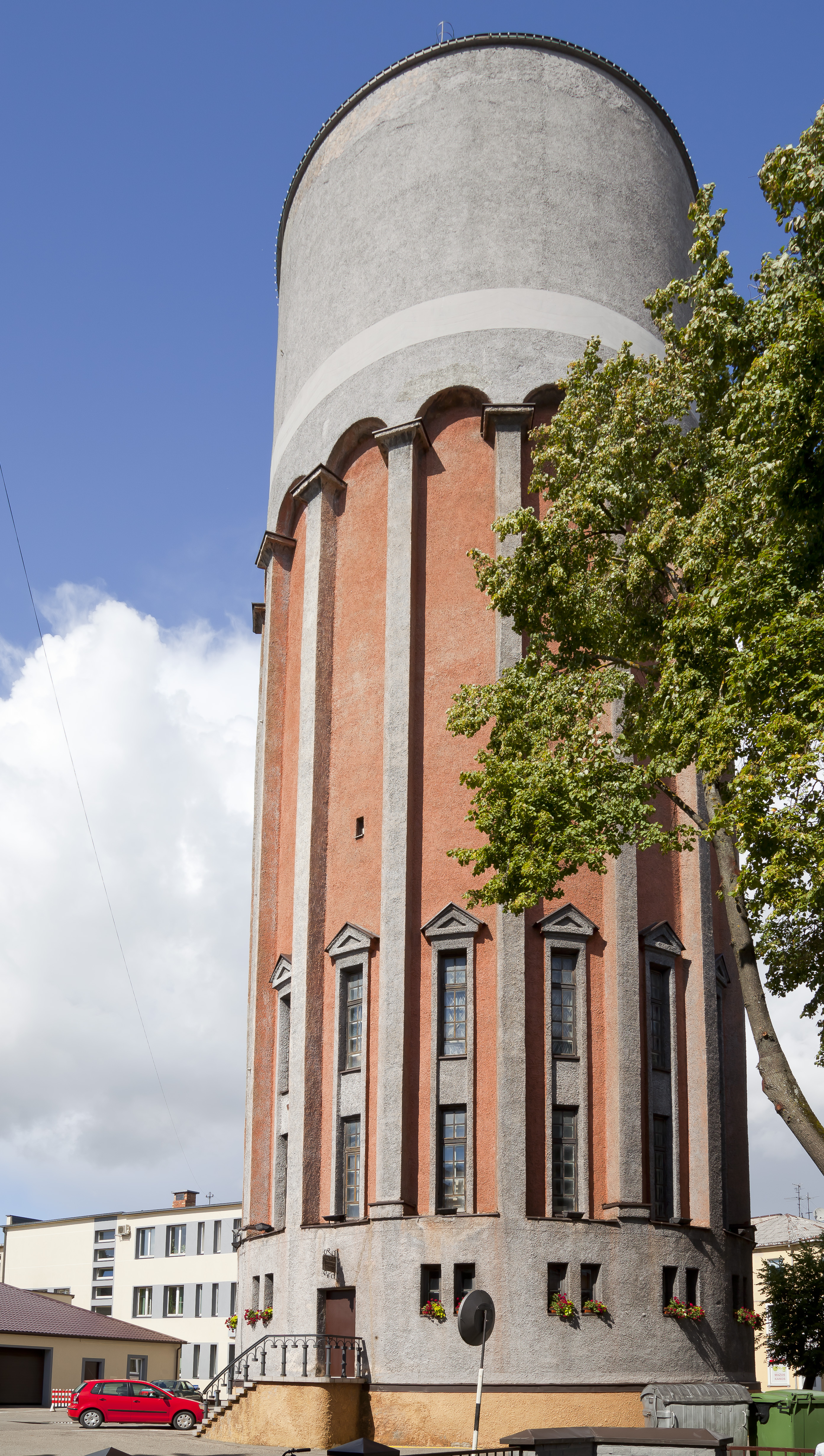 Water tower, Siauliai, Lithuania